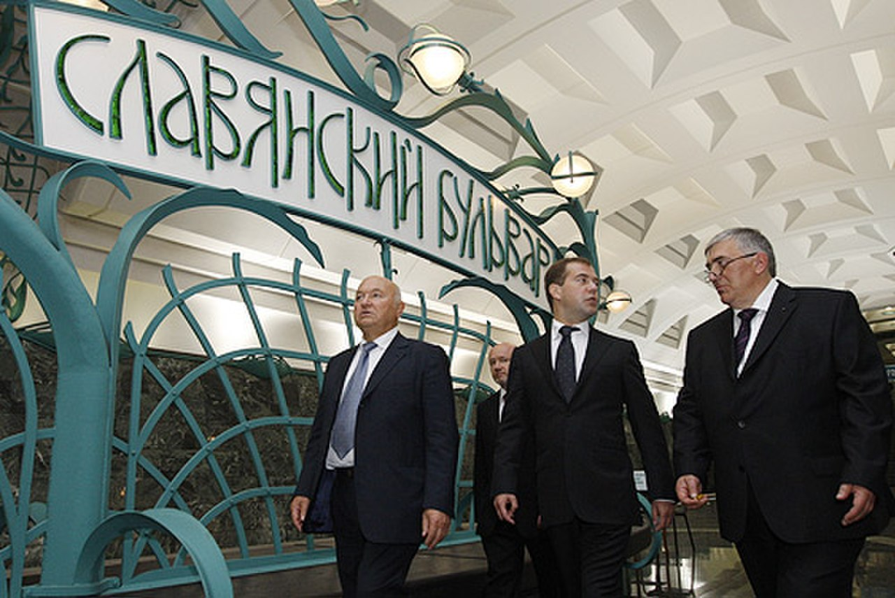 MOSCOW. At the Moscow metro station Slavyansky Bulvar. With Mayor of Moscow Yury Luzhkov (left) and Director of the Moscow Metro Dmitry Gayev.